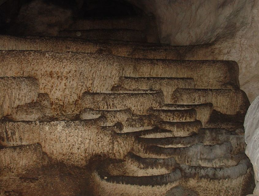 shpella